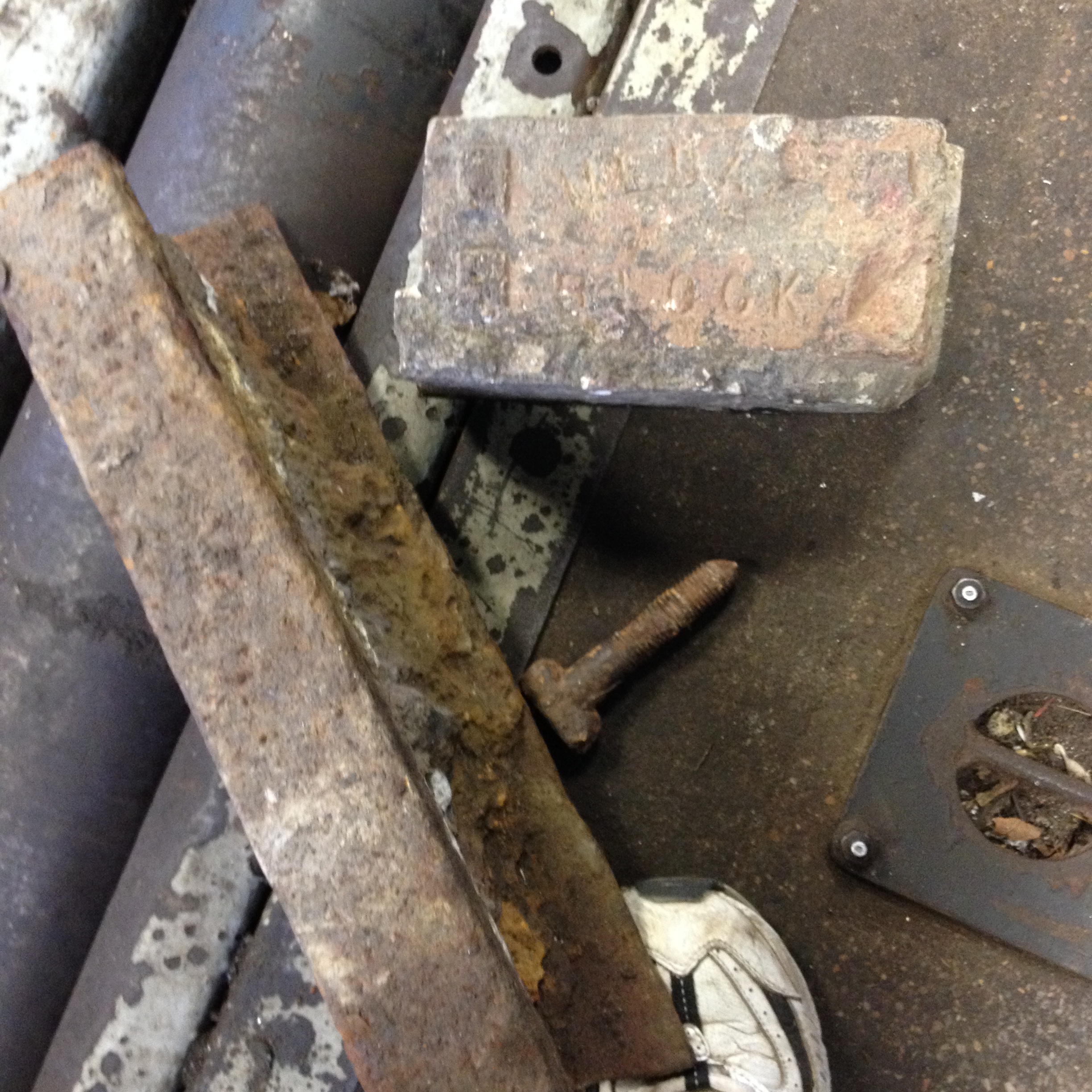 Piece of the street car track ,with anchor spike ,and brick it was laid on